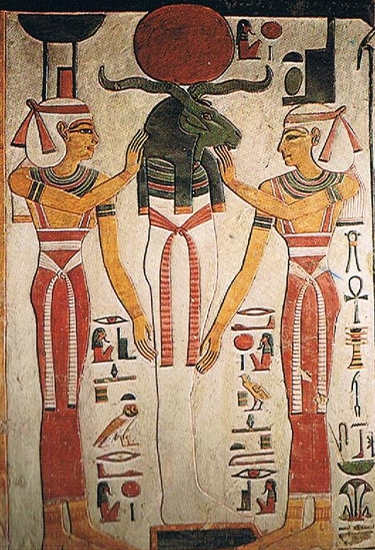 Osiris and Re merged into a single body, from the Litany of Re in the tomb of Nofretari.